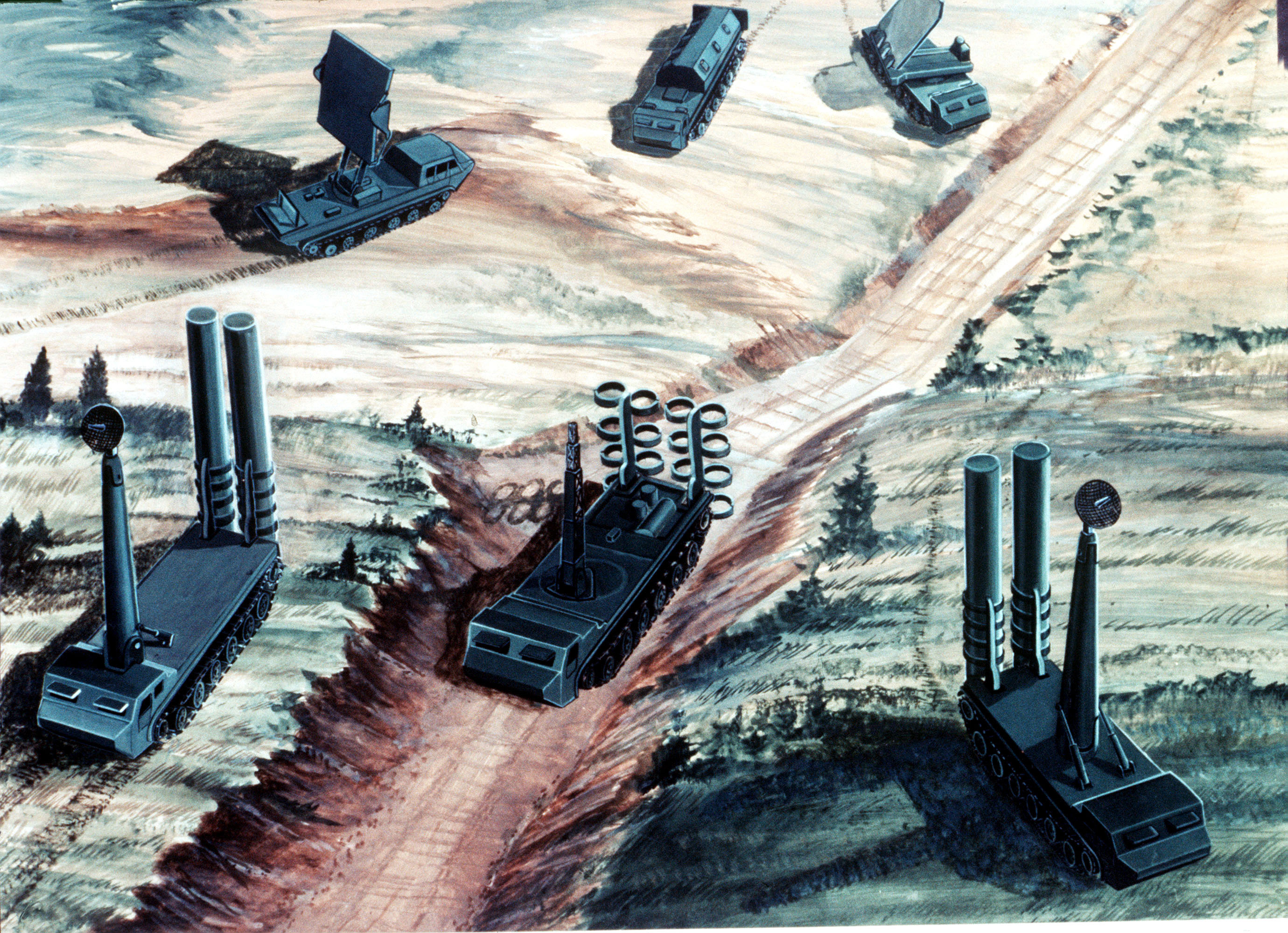 SA-X-12 air defense system. Courtesy of Soviet Military Power, 1984. Photo No. 45, pages 48 and 49.